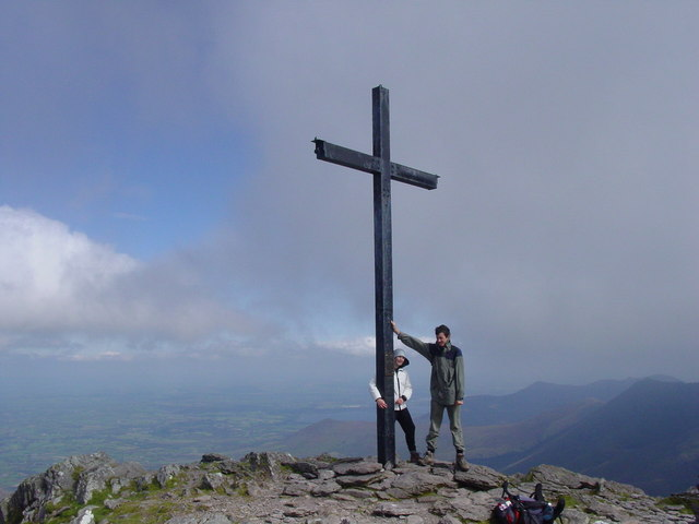 The summit of Carrauntoohil View NE at the summit of Carrauntoohill with its large iron cross.